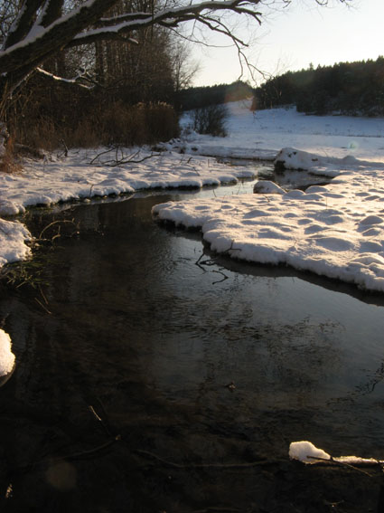 The Mošovský potok river